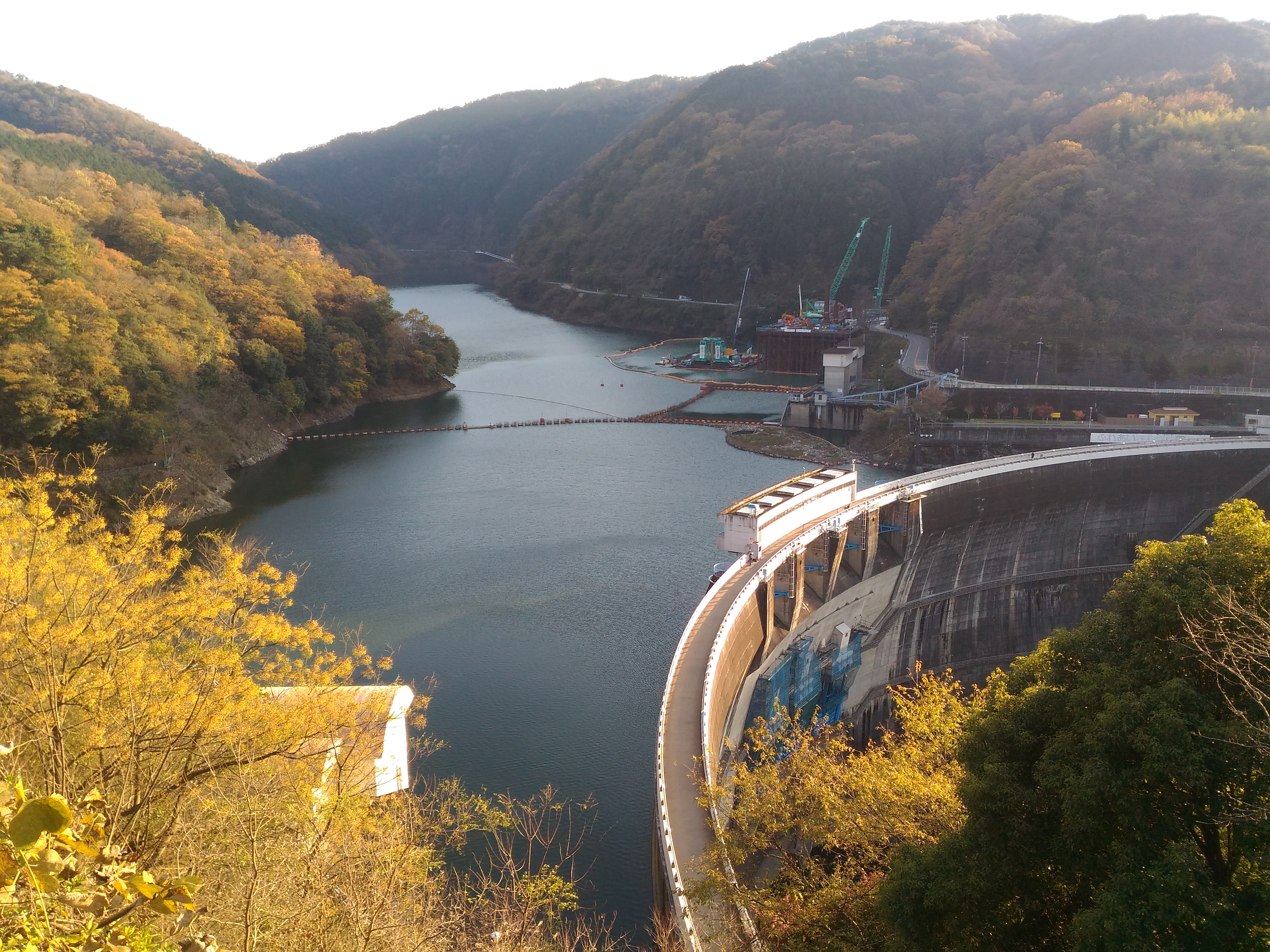 Amagase Dam, Kyoto Prefecture, Japan